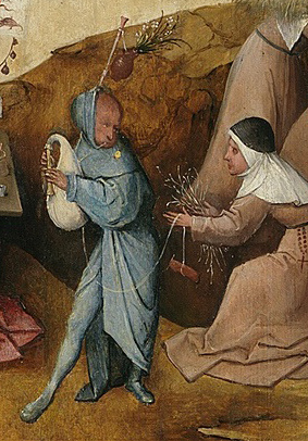 The Hay Wagon, detail.